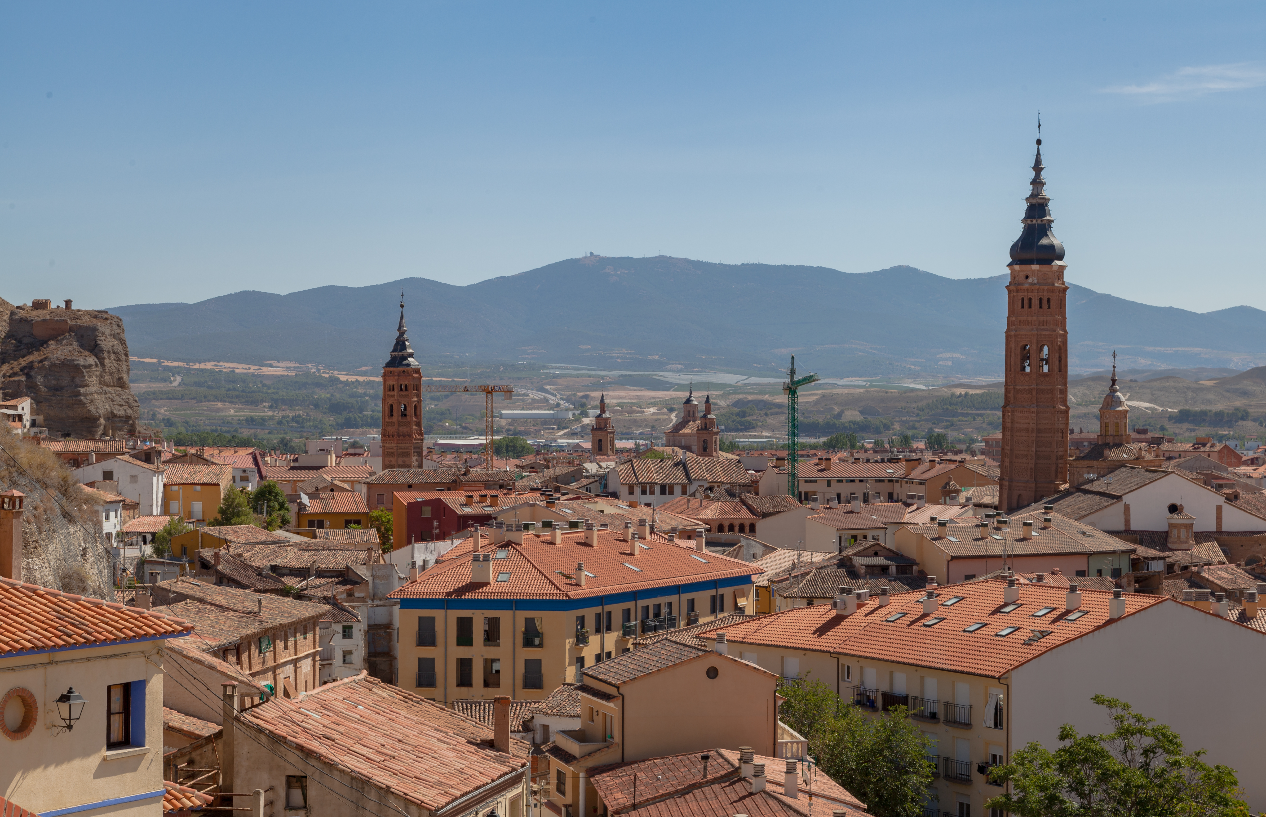 View of Calatayud from the church of La Peña, Spain